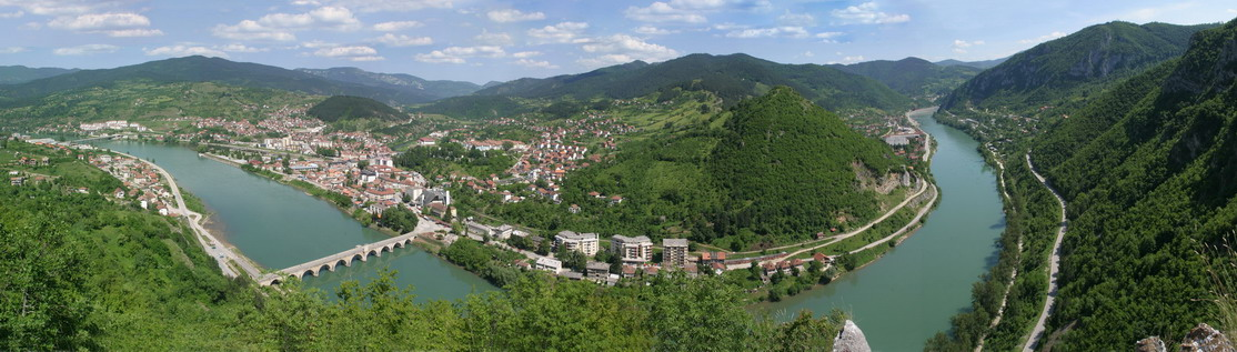 View of Višegrad